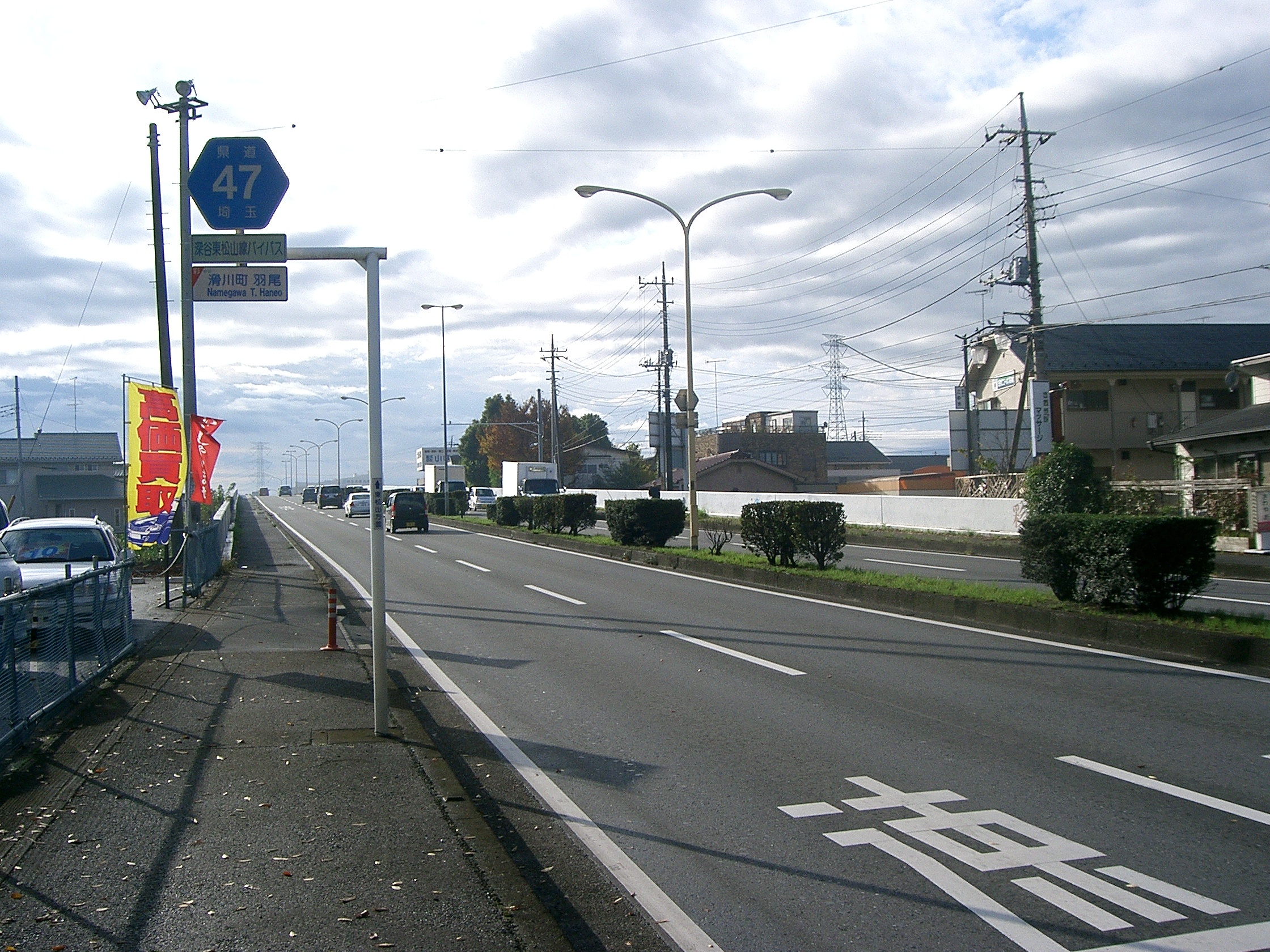 Saitama prefectural road 47 Fukaya-Higashi-matsuyama line. Looking south from Shinrinkouen Station Exit intersection, Haneo, Namegawa town, Saitama prefecture, Japan.